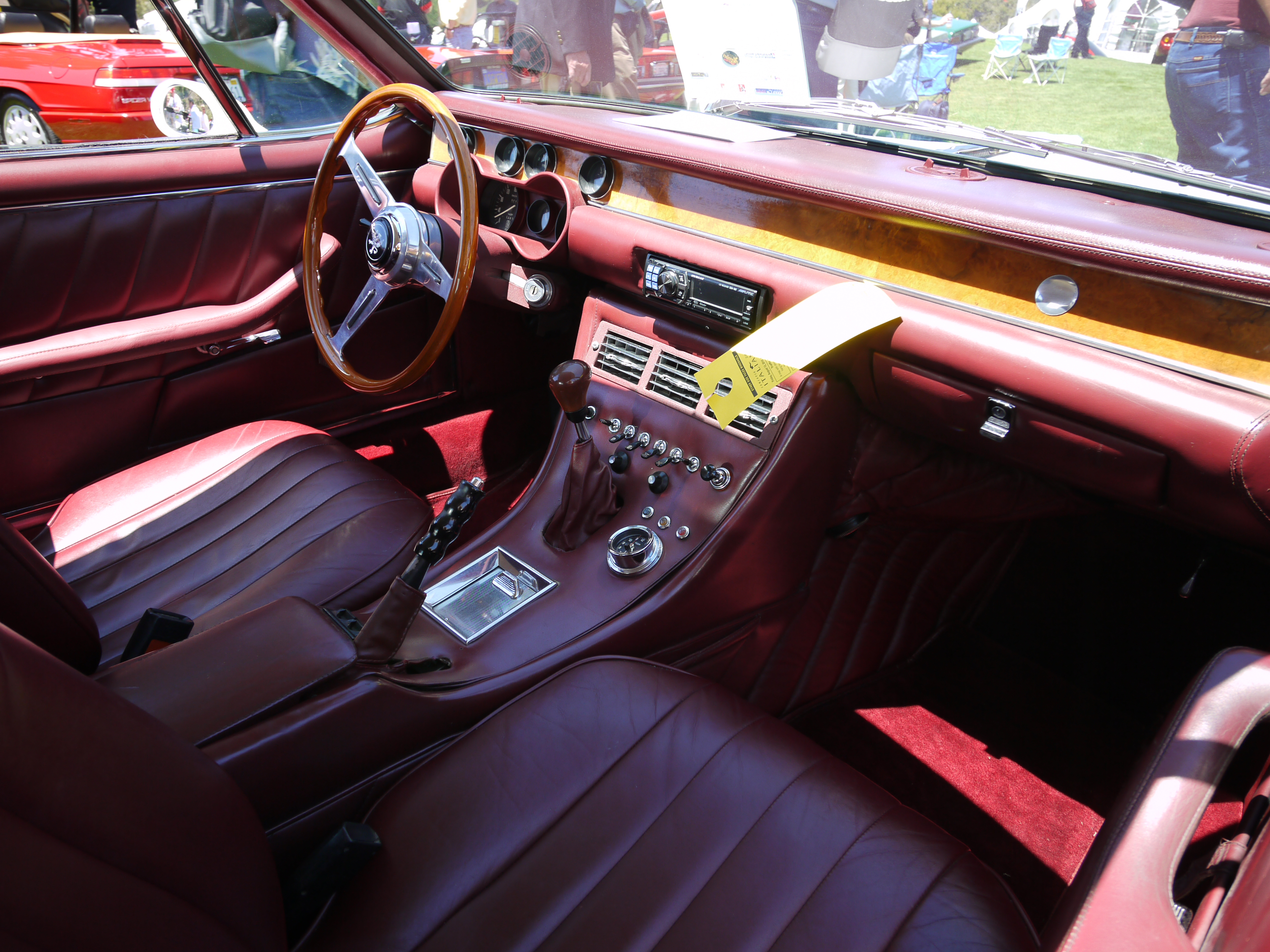 Iso Lele. Photograph taken at 2010 Concorso Italiano.